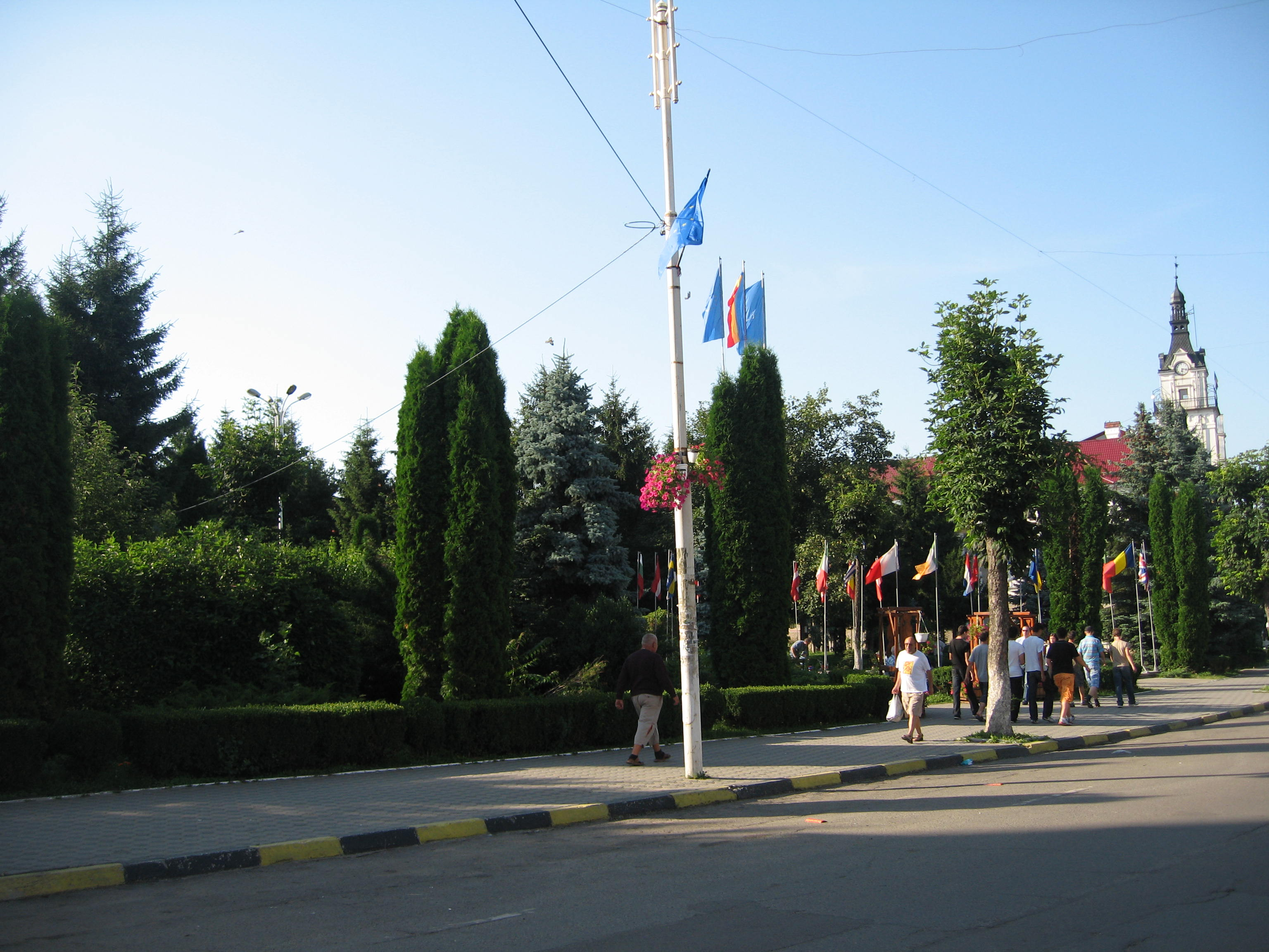 The Administrative Palace in Suceava and Flags Park.